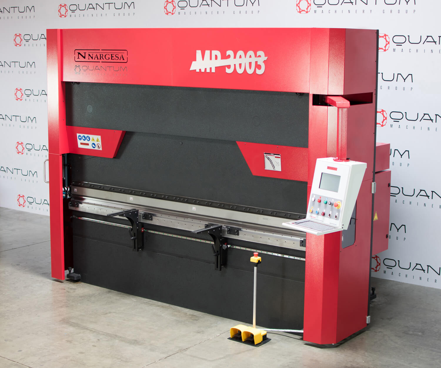 A hydraulic press brake by Nargesa